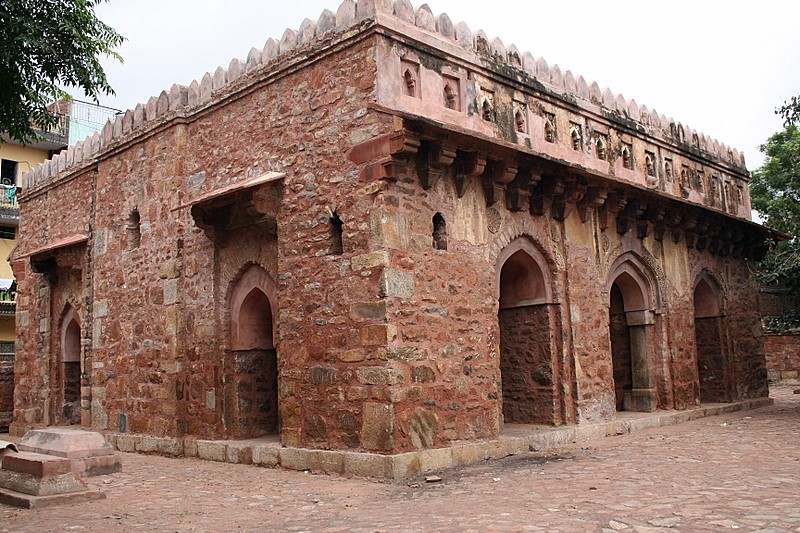 Tomb of Bahlol Lodi, Bahlul Khan Lodi (died 1489) was the founder of the[1] Lodi Dynasty of the Delhi Sultanate in India upon the abdication of the last claimant from the previous Sayyid rule. He was born into an Pashtun family of traders, and became a renowned warrior and governor of Sirhind (Punjab). He became the first sultan of the dynasty on 19 April 1451 (855 AH). He died in July 1489.[2]